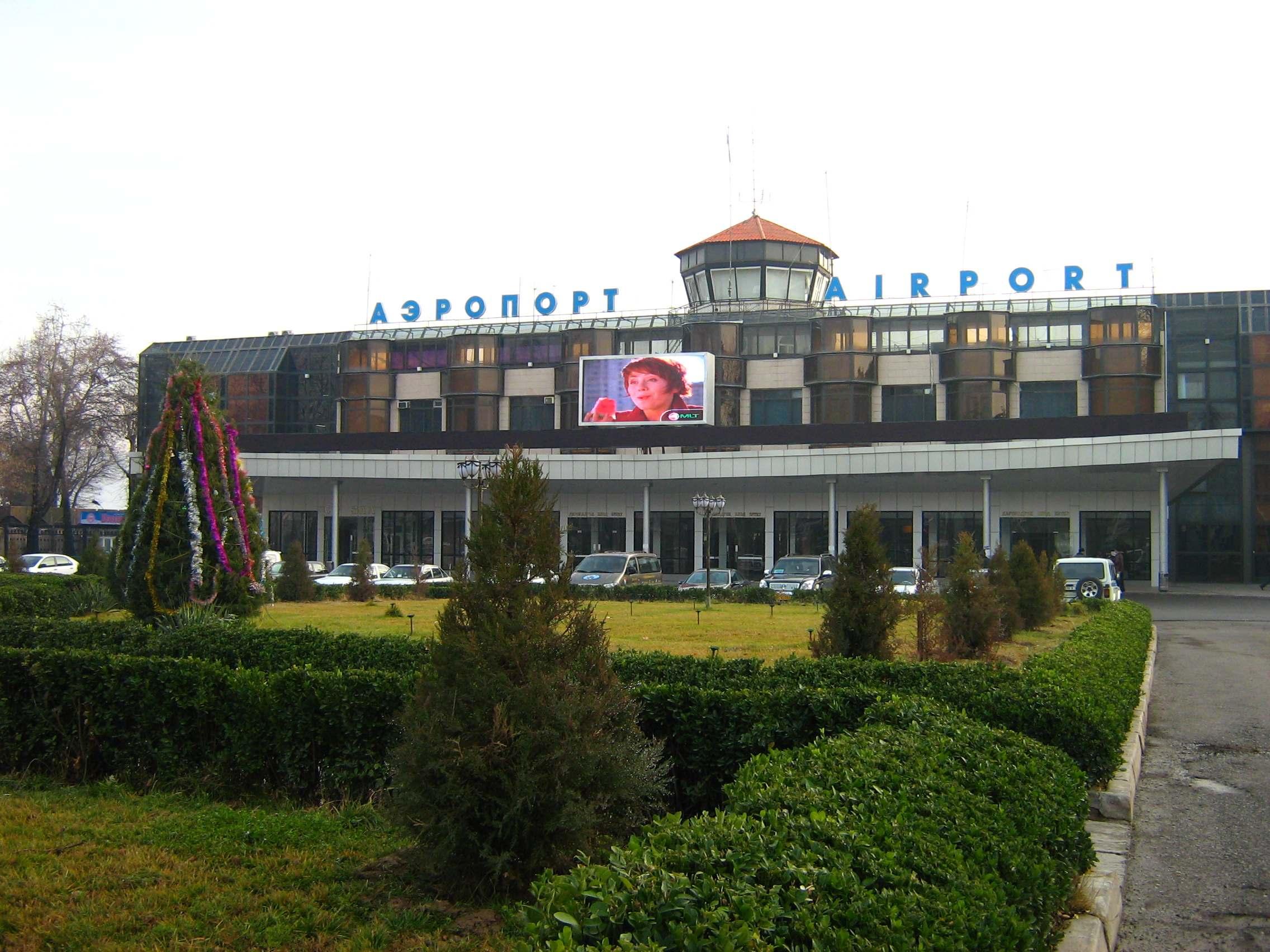 Dushanbe Airport. - Titov St 32/1,, Dushanbe 734012, Tajikistan. - T.:+992 474 49 4229 ·